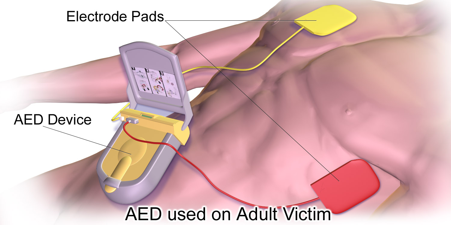 Medical illustration of an AED (Automated Eternal Defibrillator).